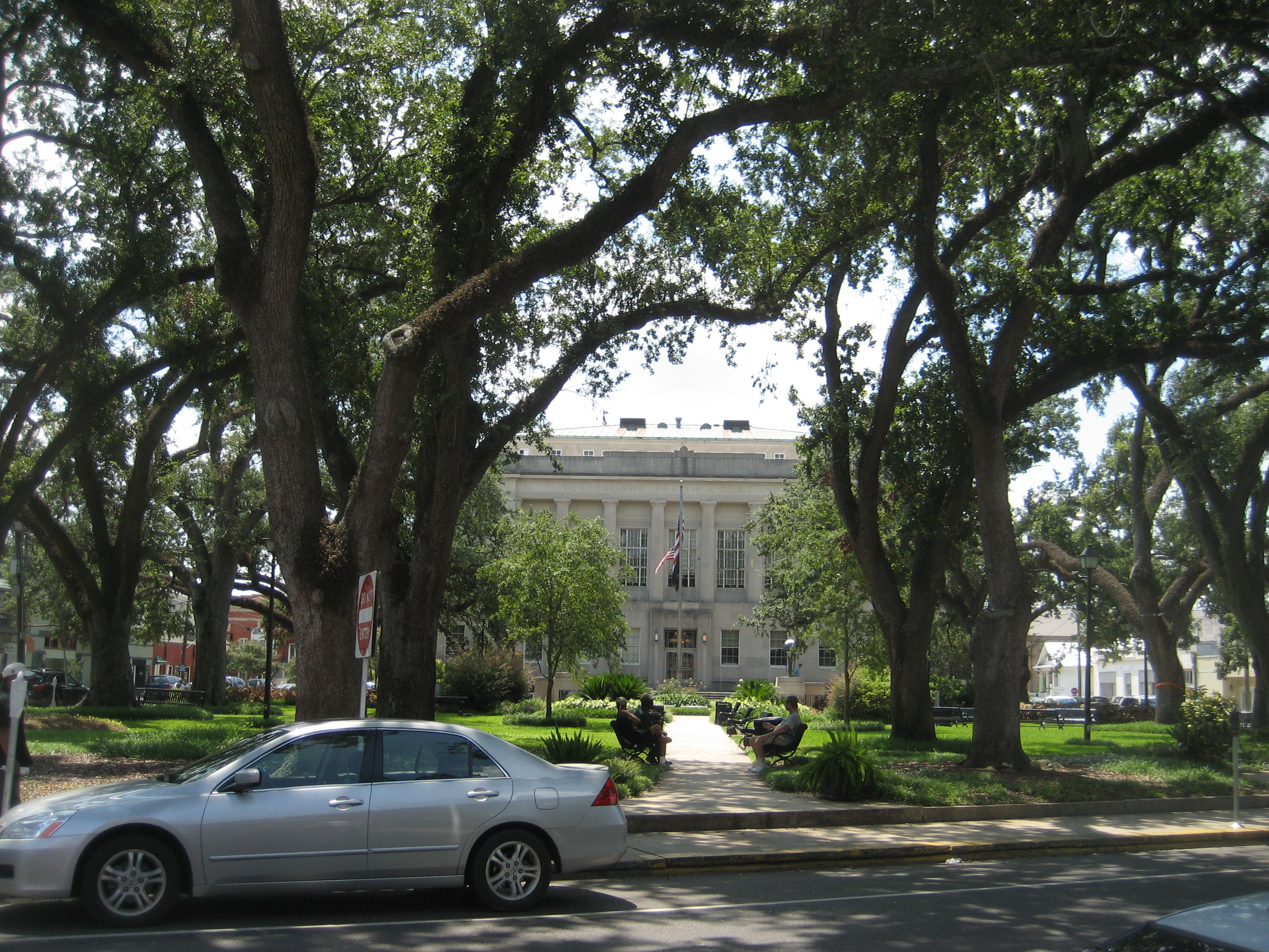 Terrebonne Parish Courthouses, Main Street, Houma, Louisiana. The courthouse is part of the Houma Historic District, which is listed on the National Register of Historic Places.